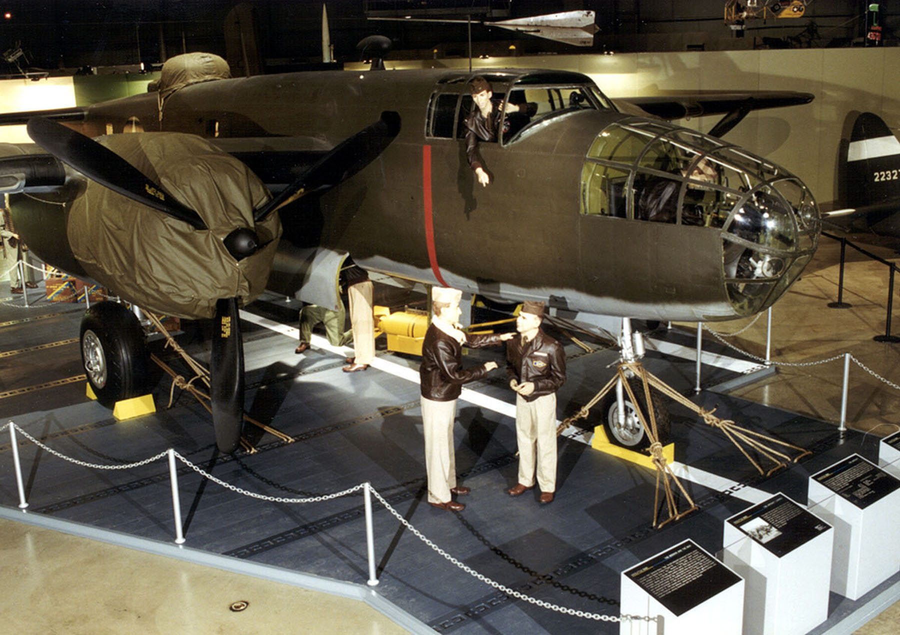 DAYTON, Ohio -- North American B-25B Mitchell and Doolittle Raiders diorama in the World War II Gallery at the National Museum of the United States Air Force.